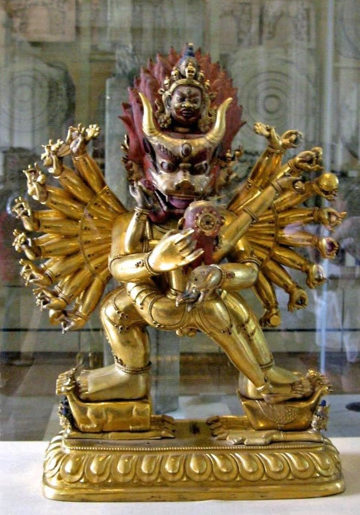 Photo of Yamantaka_Vajrabhairav taken at the British Museum - Asian Gallery.